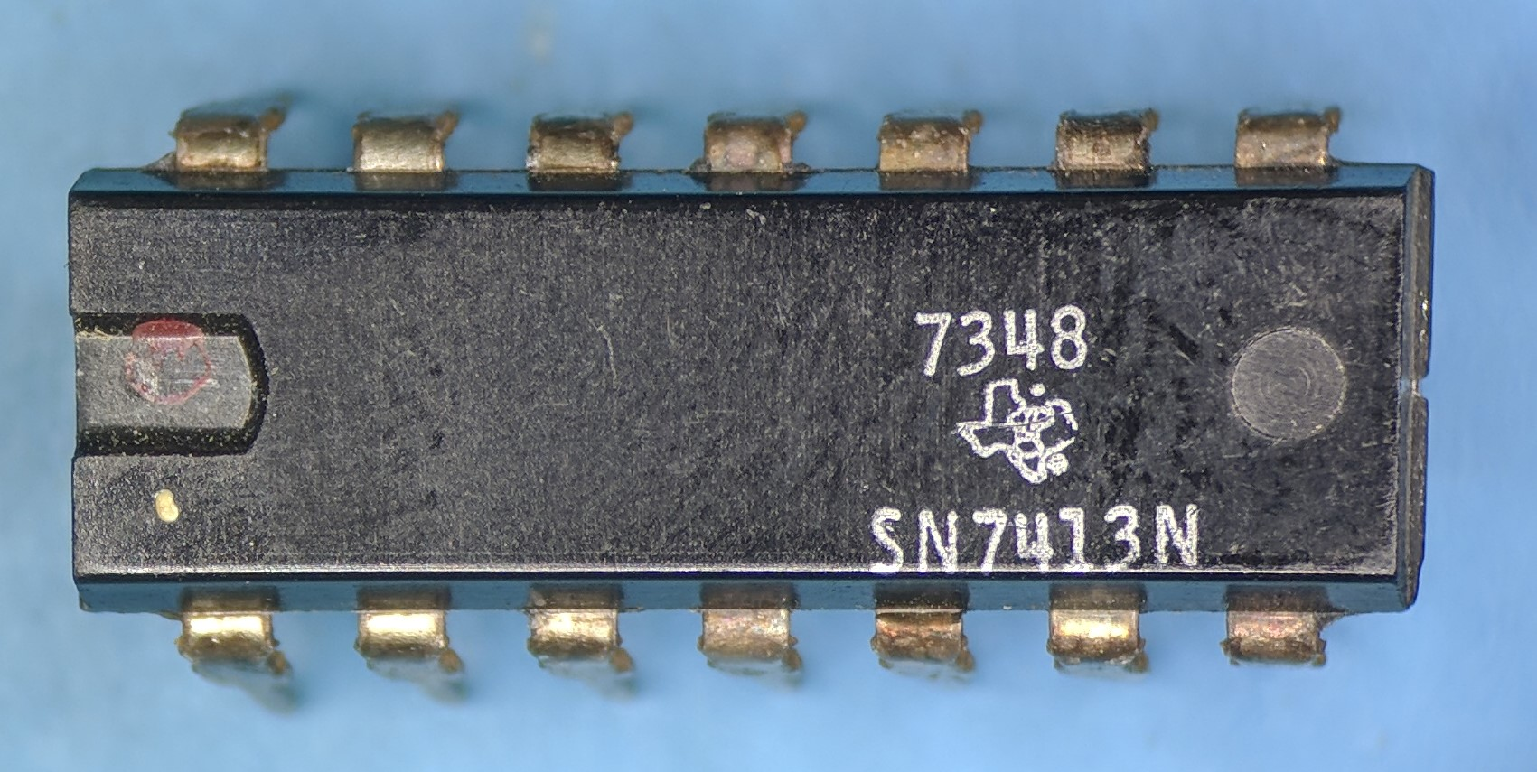 Package top of a Texas Instruments 7413 chip, datecode 7348.